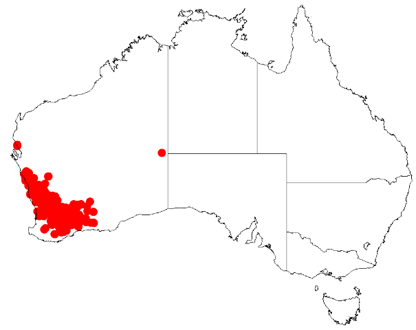 Acacia multispicata Occurrence data from Australasian Virtual Herbarium downloaded from on 8 December 2018